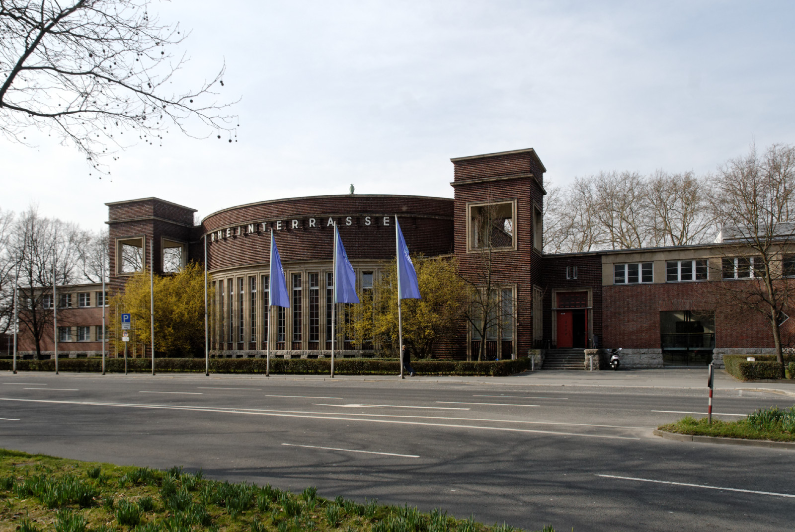 Rheinterrasse in Düsseldorf-Pempelfort, Germany